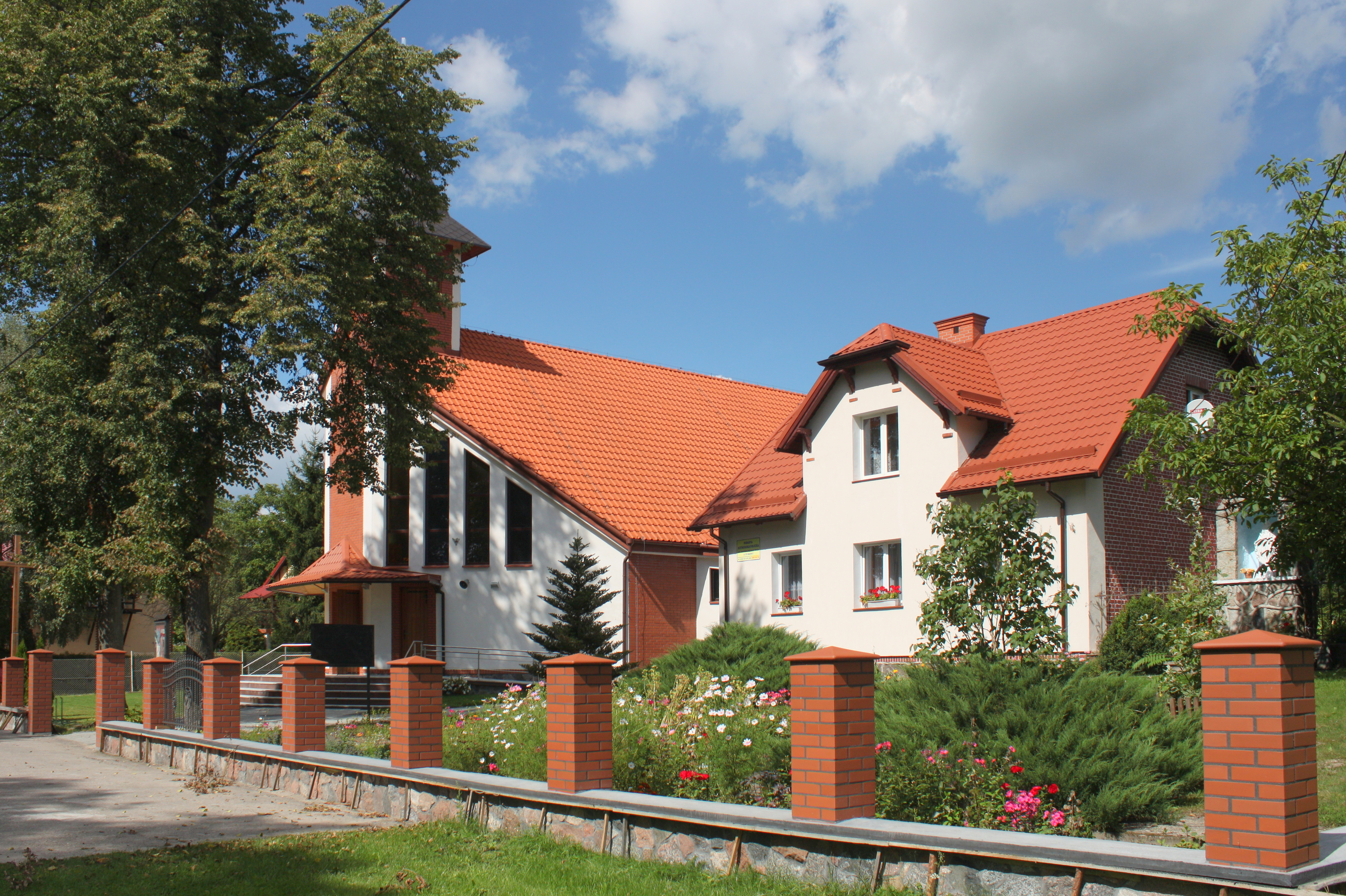 Church in Kosewo.